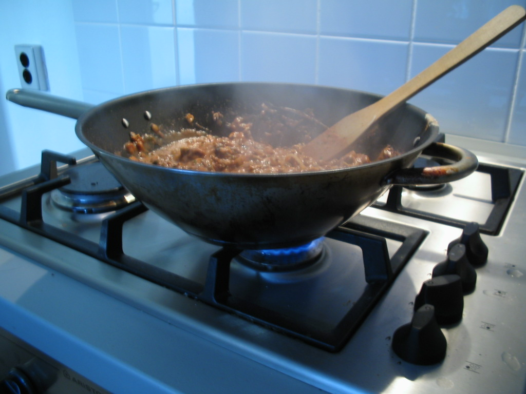 cooking